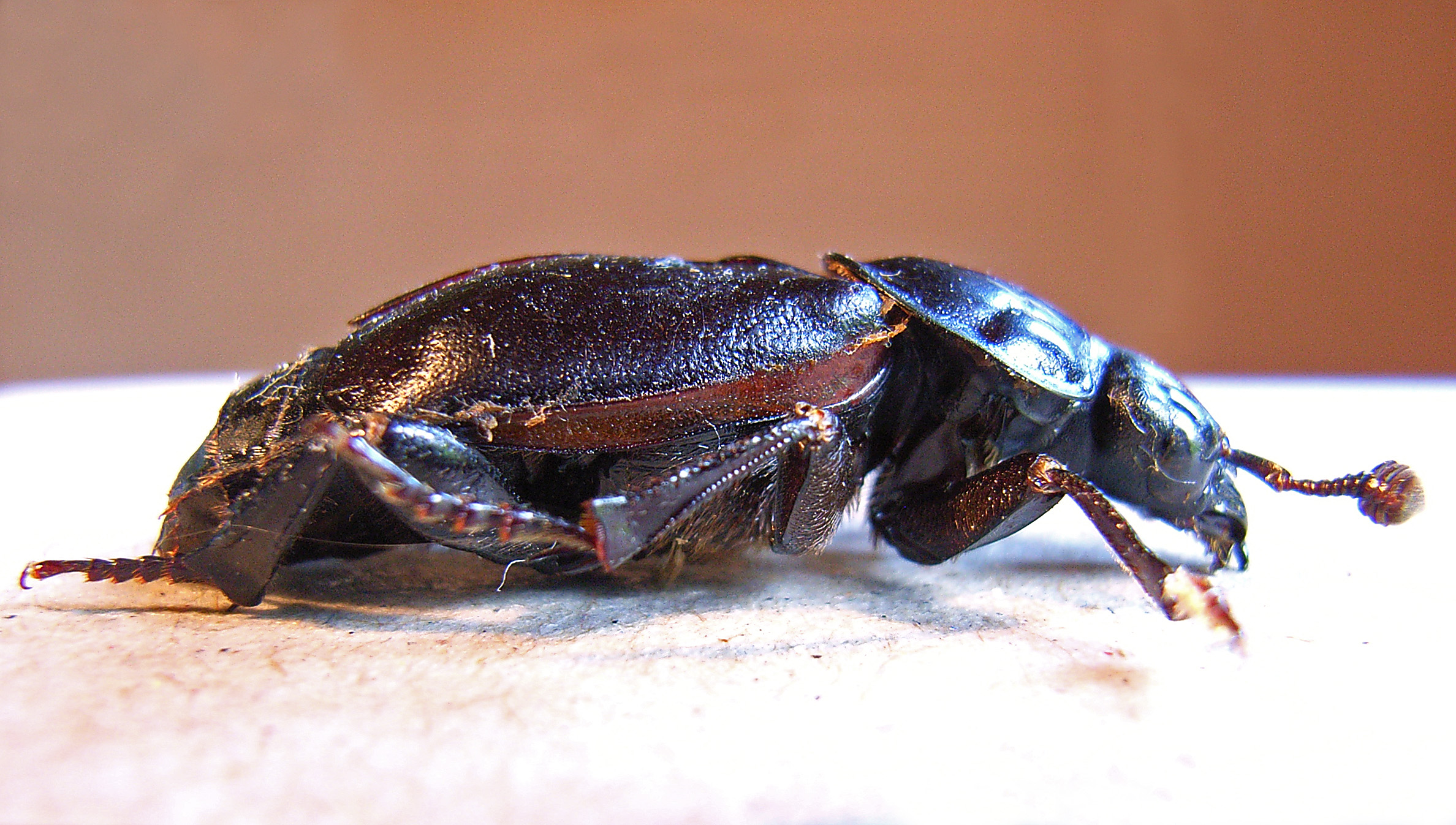 Please report references to kulacgmx.at.